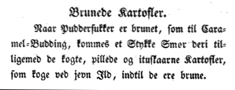 Recipe caramelized potatoes.